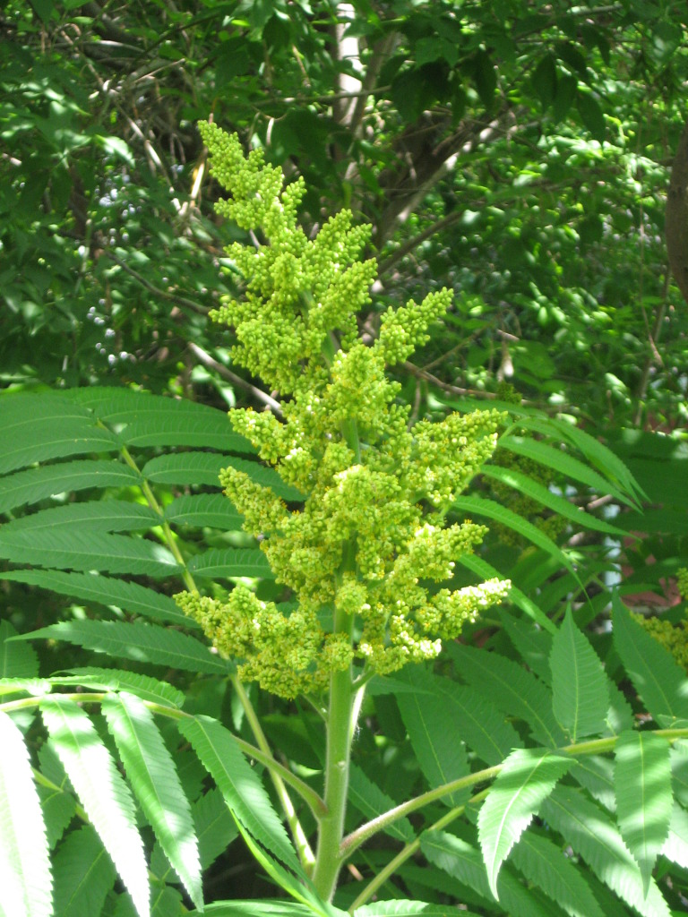 Male staghorn sumac (Rhus typhina) flower at early stage of blooming and releasing its pollen. Montreal, June 13, 2012.